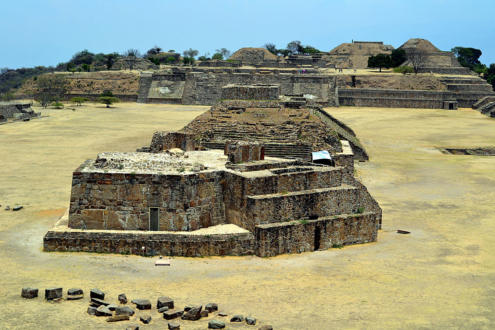 Building J, Monte Alban, Oaxaca, Mexico. Building J functioned as an observatory temple. It was built around 100 BCE by the Zapotec people of Oaxaca Mexico.